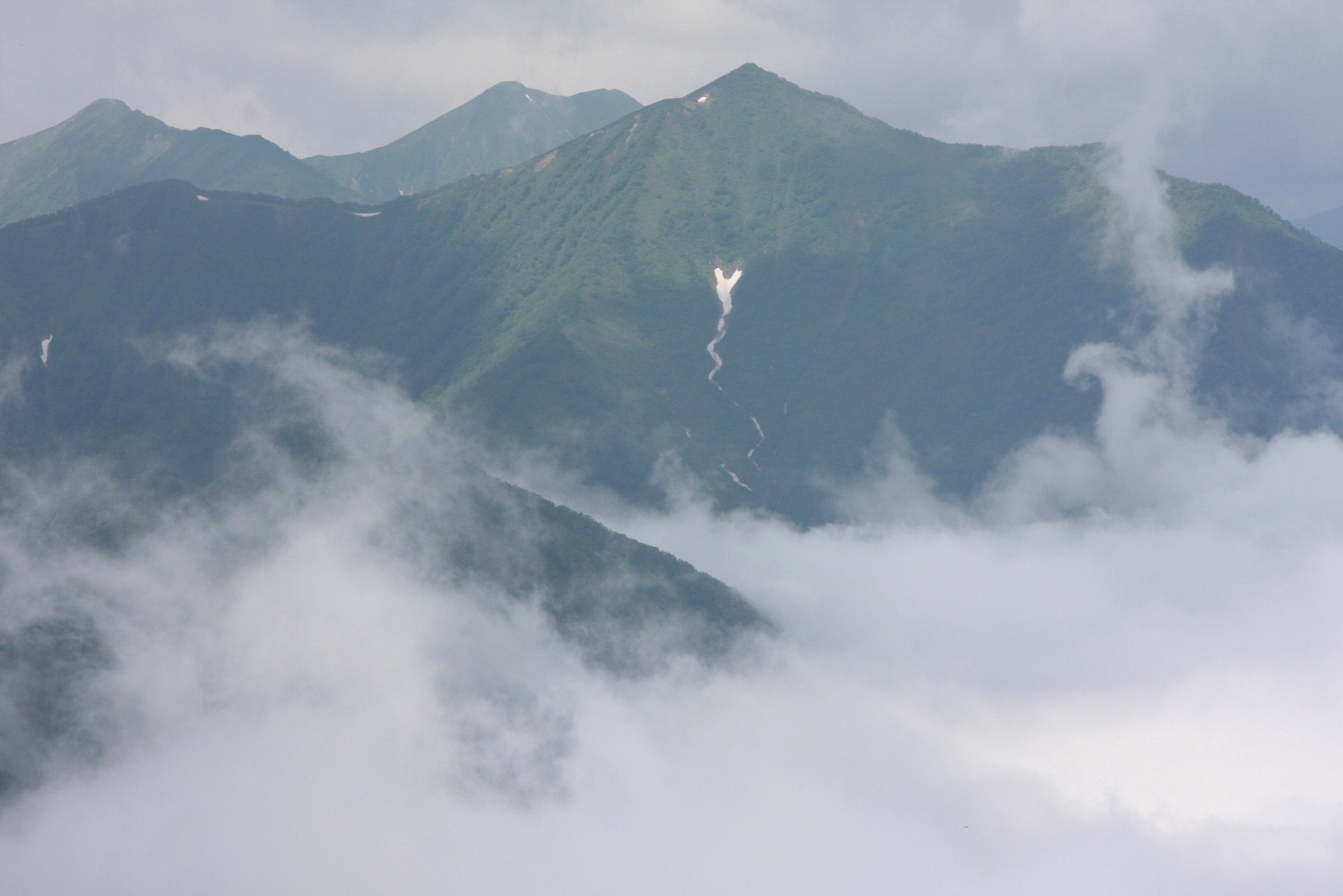 Mount Satsunai as seen from the east. Taken from Mount Tokachi-Poroshiri.